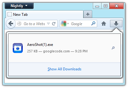 screenshot of new download manager. as per usual, blurred google logo